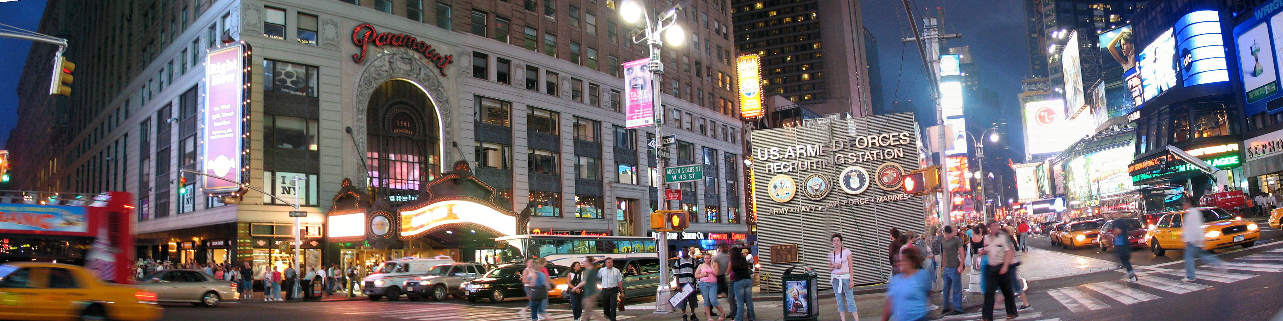 Times Square, New York City, New York panorama shot.